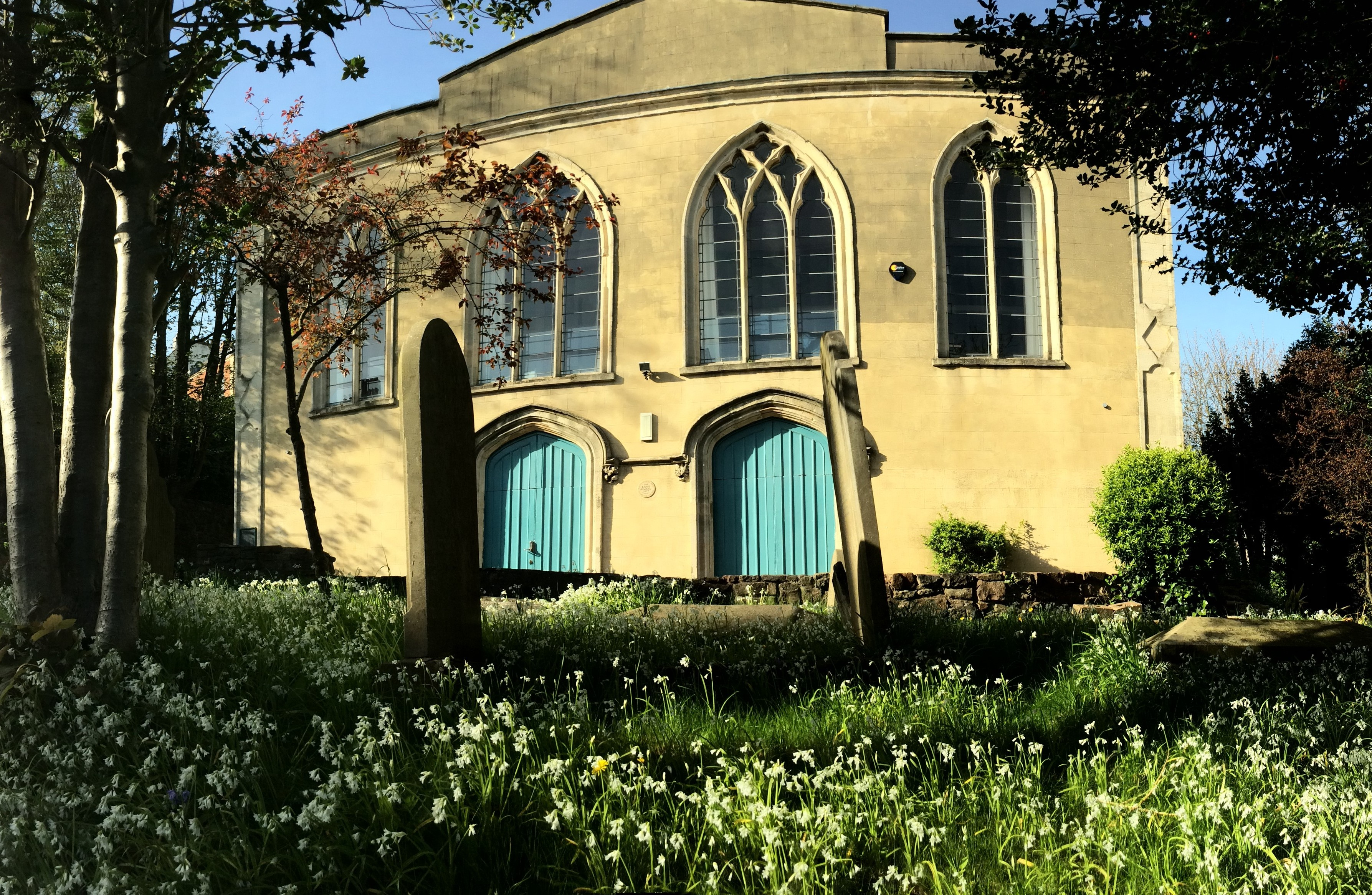 Hope Chapel, Hopechapel Hill, Hotwells, Bristol, England, seen from the south